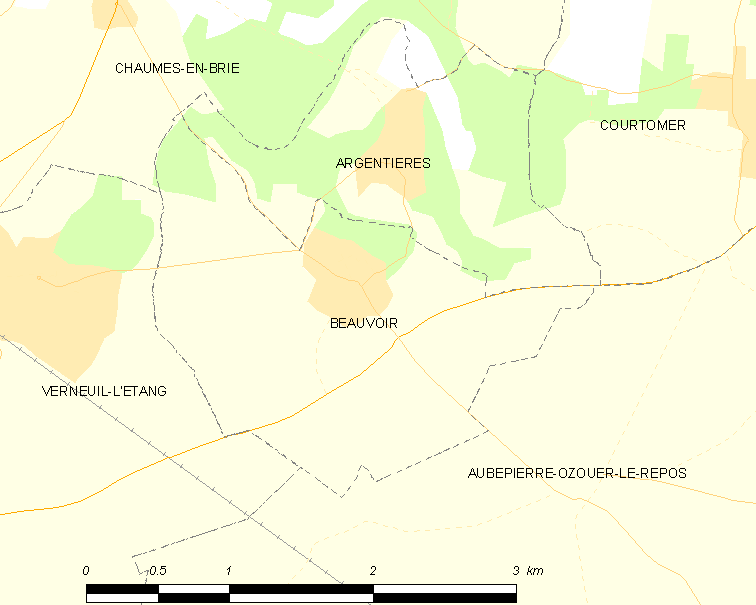 Map of French municipality Beauvoir